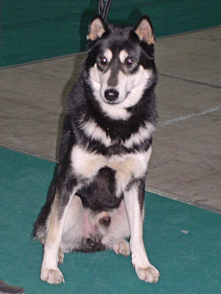 East Siberian Laika. The picture was taken by PrzemekL during World Dog Show 2006 in Poznań.